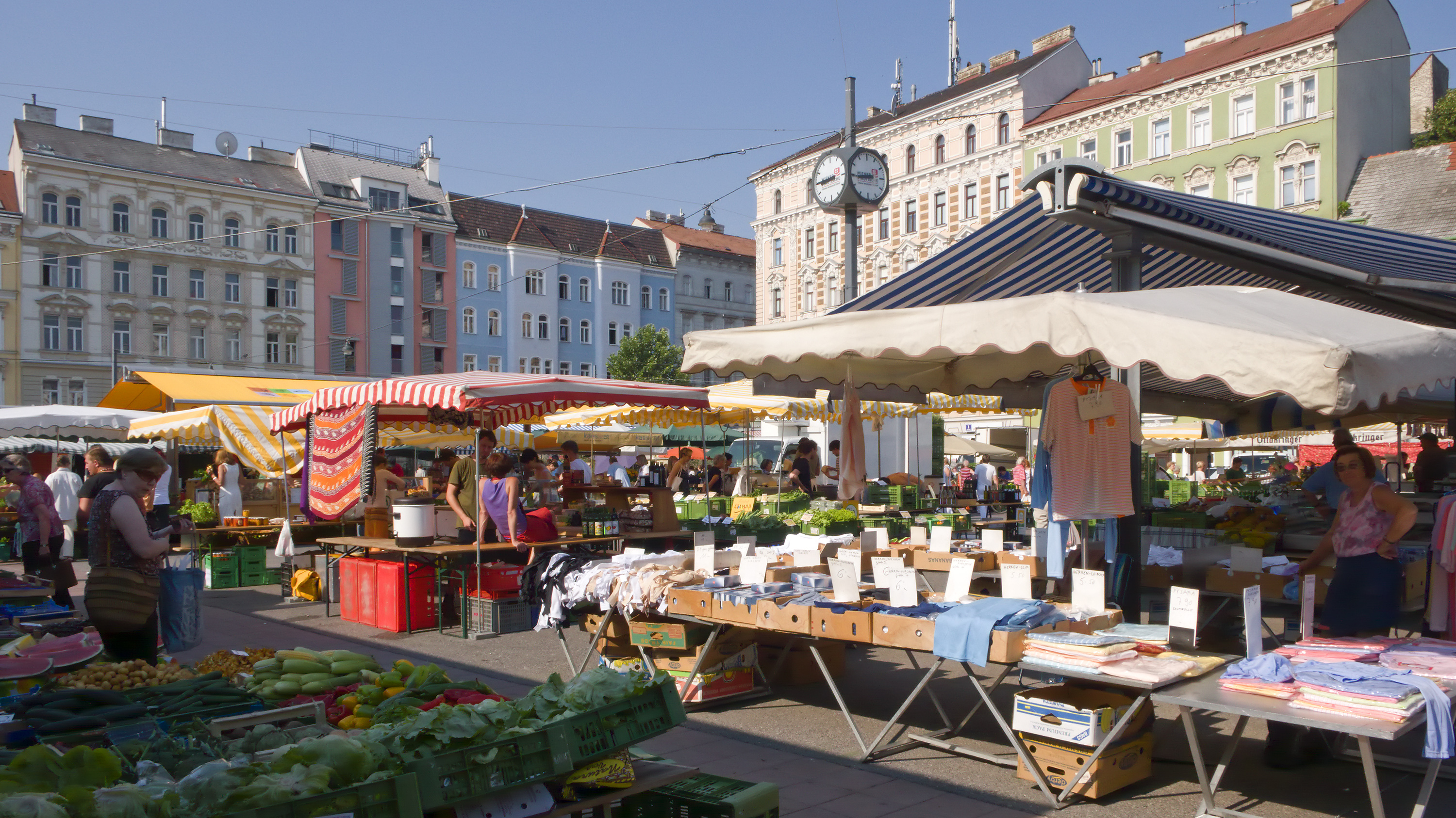 Market Karmelitermarkt in Vienna Leopoldstadt